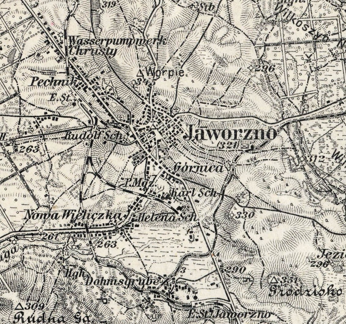 Map of Jaworzno in 1903.